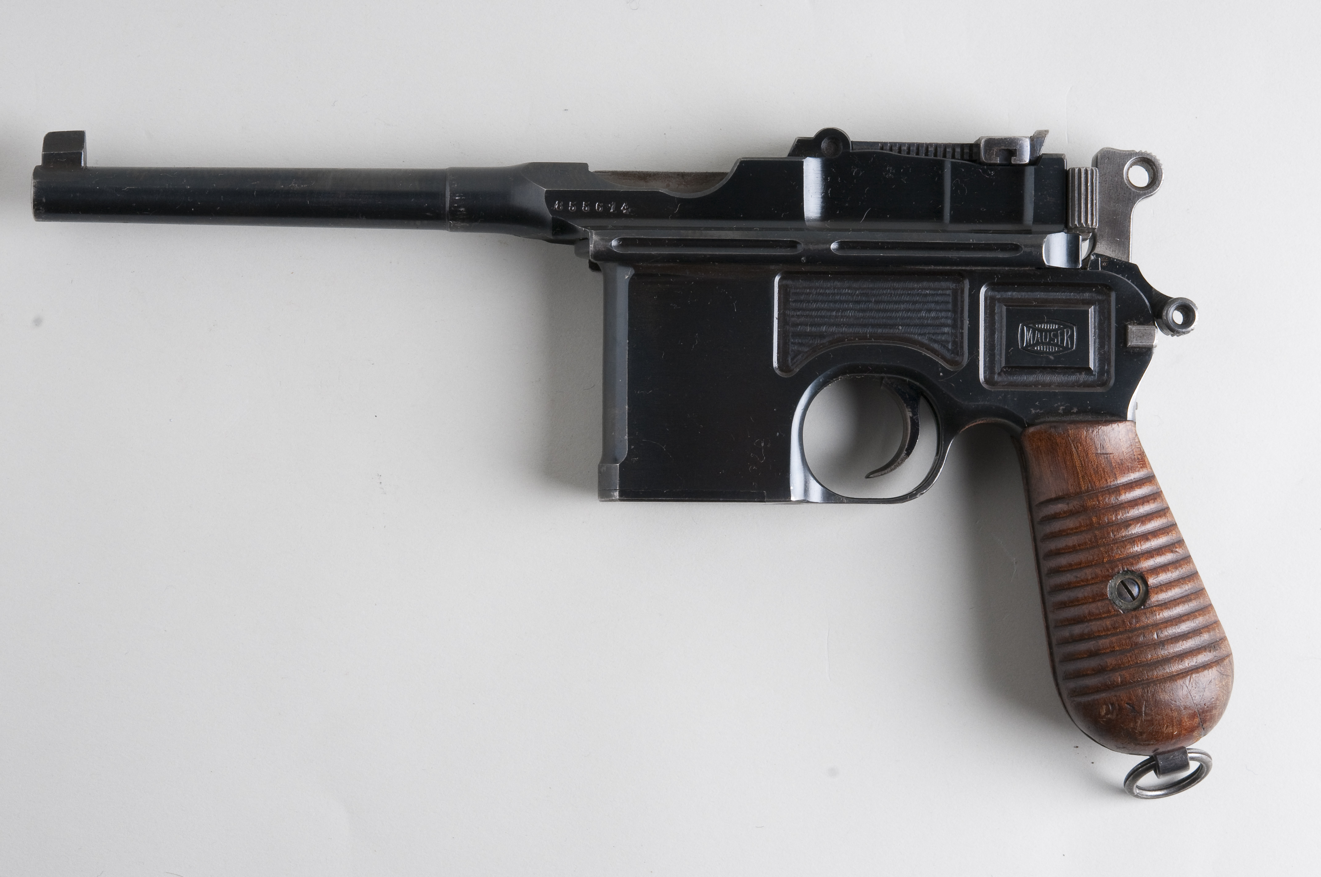 Mauser C96 From flickr user handvapensamlingen - Pistols used in Norway.